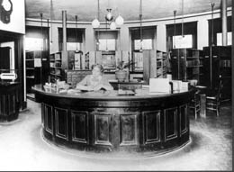 Ballard Carnegie Library checkout desk, ca 1907. Via the Seattle Public Library and Ballard Historical Society.